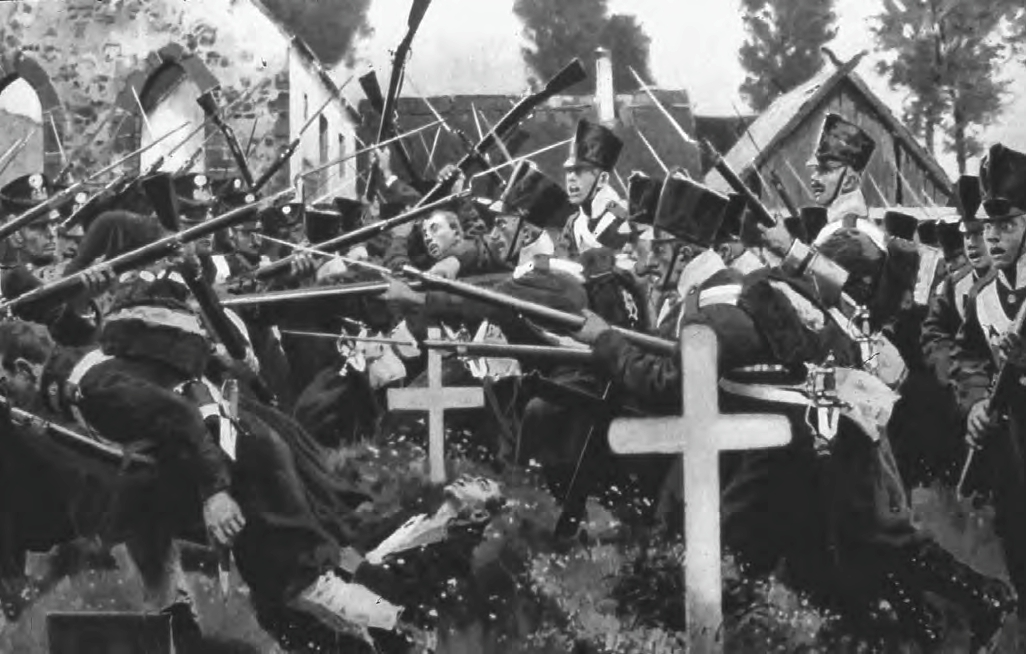 Rain having rendered small arms fire impossible, Saxon infantry (left) use musket butts and bayonets to defend the churchyard at Grossbeeren against a Prussian onslaught on 23 August 1813.